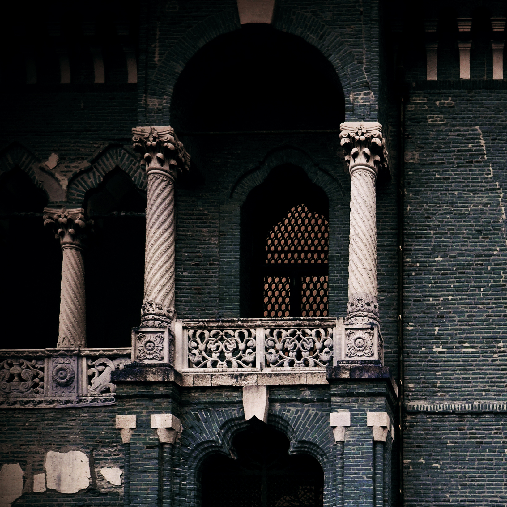 Mogosoaia Palace [built from 1702], near Bucharest, Romania with major restoration works [1912-1945] by architects Domenico Rupolo and G.M. Cantacuzino for Marta Bibescu